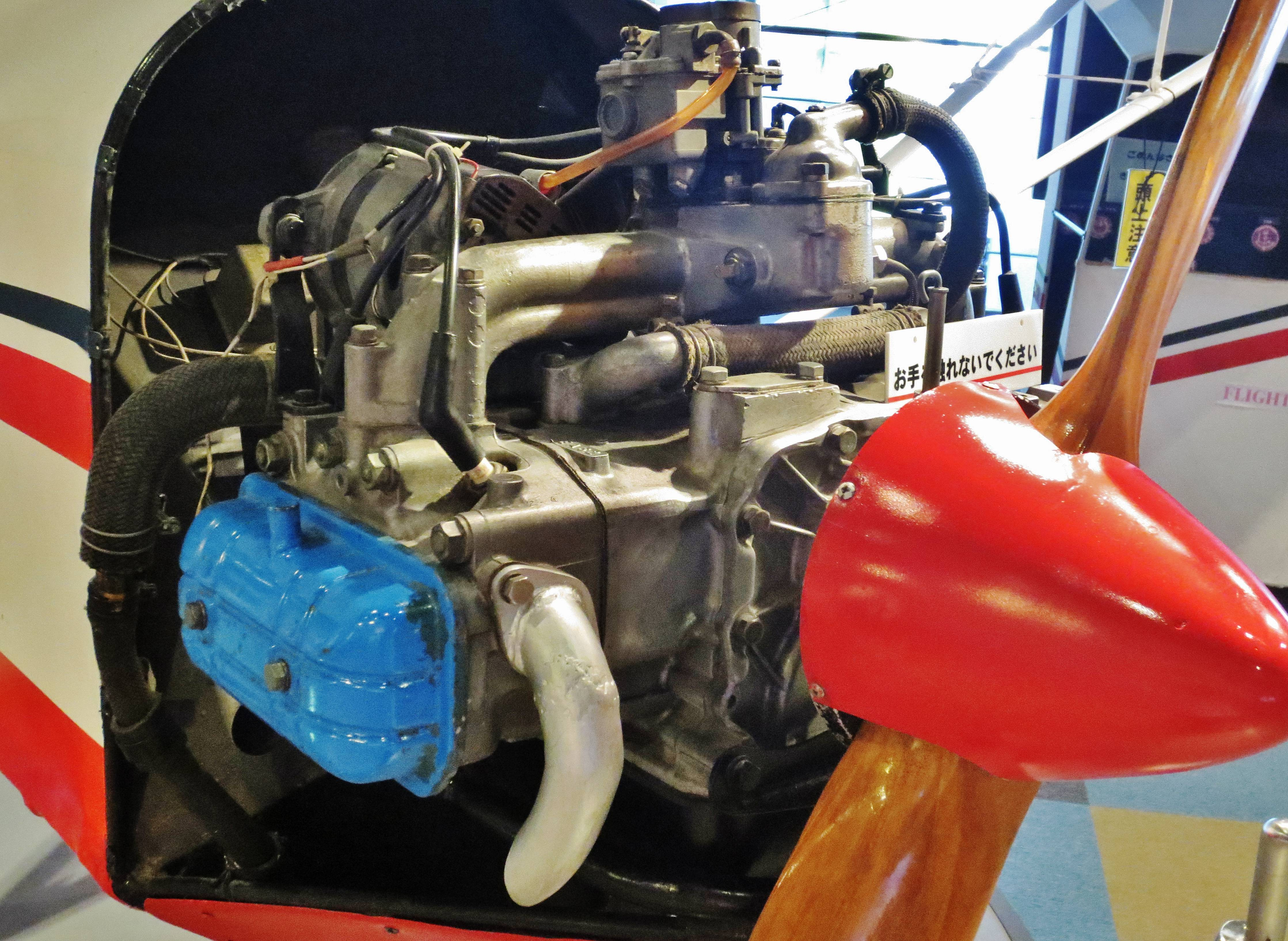 Subaru Plane engine (Mukai Chiaki Children's Science Museum).